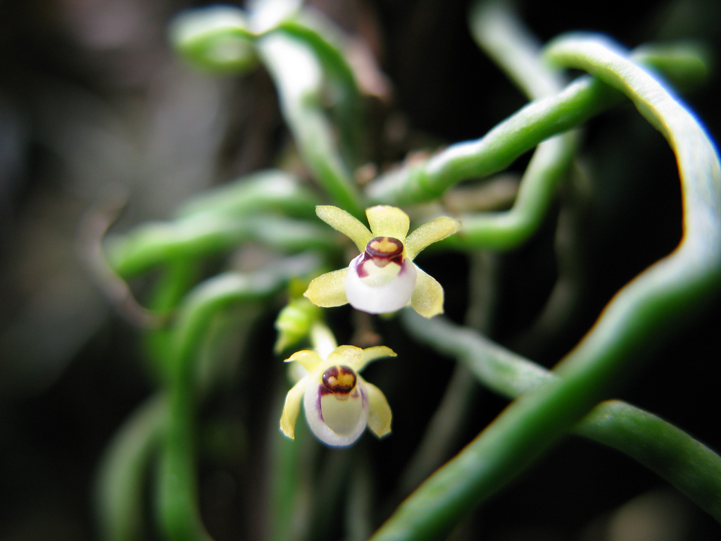 Taeniophyllum biocellatum